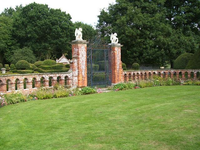 Garden wall and gate to topiary, Sharsted Court